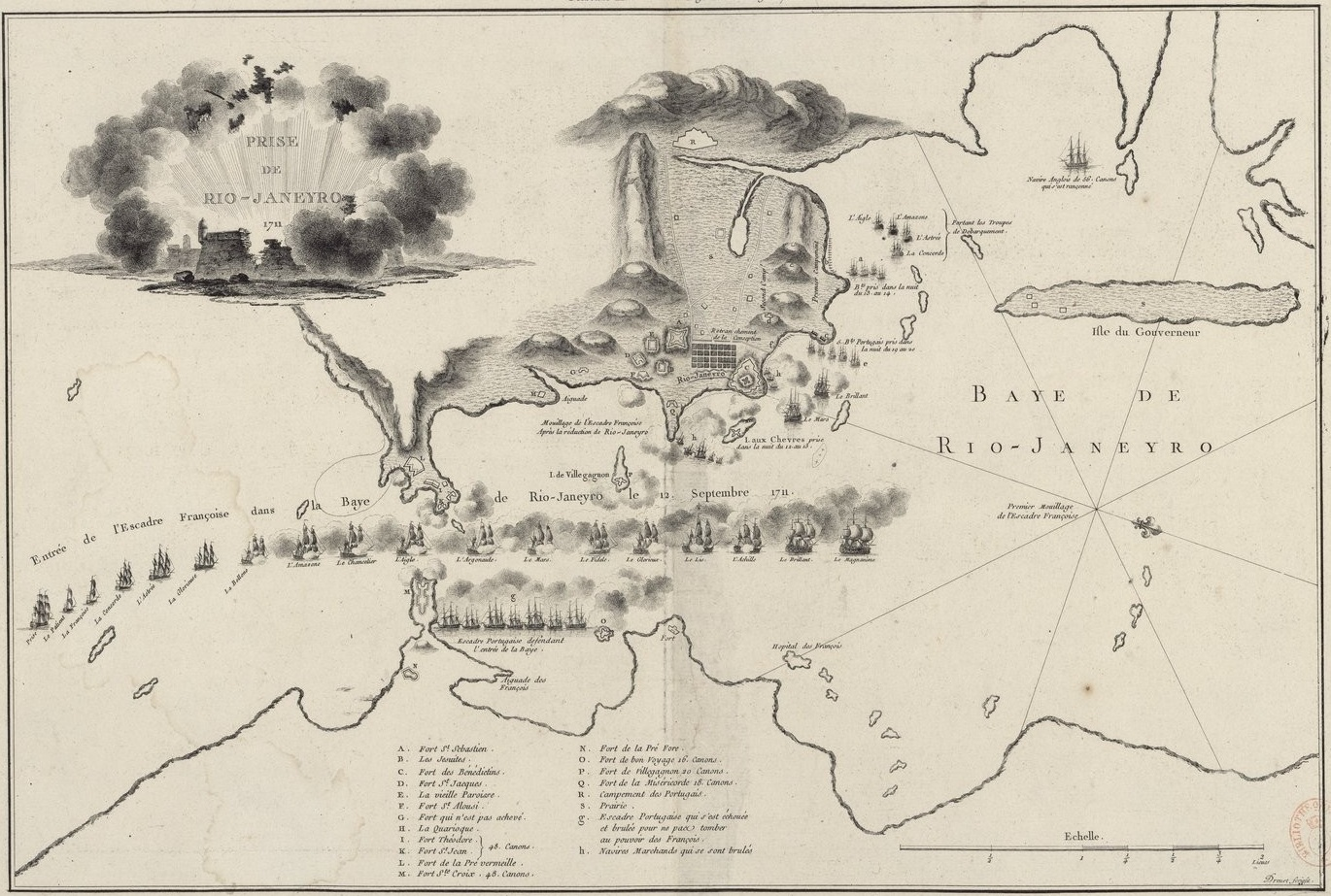 Plan of the French attack on Rio de Janeiro in 1711 by the squadron of Duguay-Trouin. General plan of the attack dated 1711, but probably later because the return was only in February 1712. War of Succession of Spain.